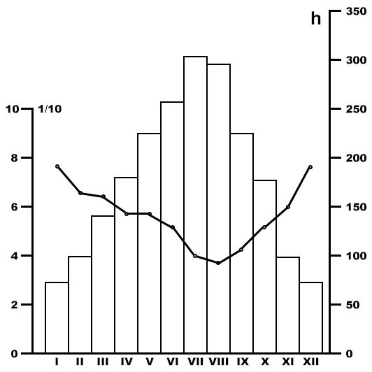 This is a chart explaining the insolation on Kosovo during a year.